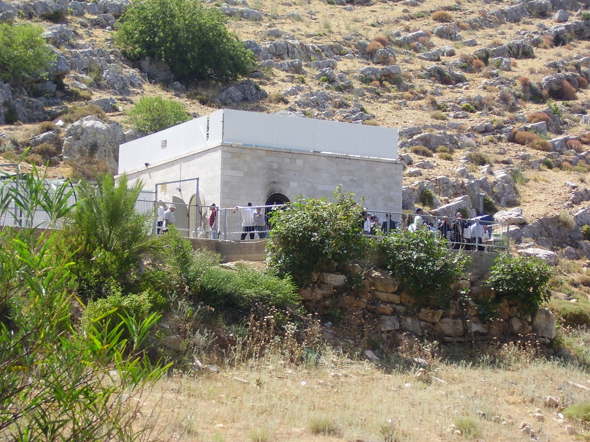 Jonatan ben Uziel in Amuka, Birya forest, Upper Galilee